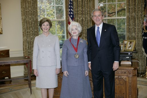 President George W. Bush and Laura Bush stand with 2005 National Humanities Medal recipient Judith Martin, author and columnist, Thursday, November 10, 2005 in the Oval Office at the White House.